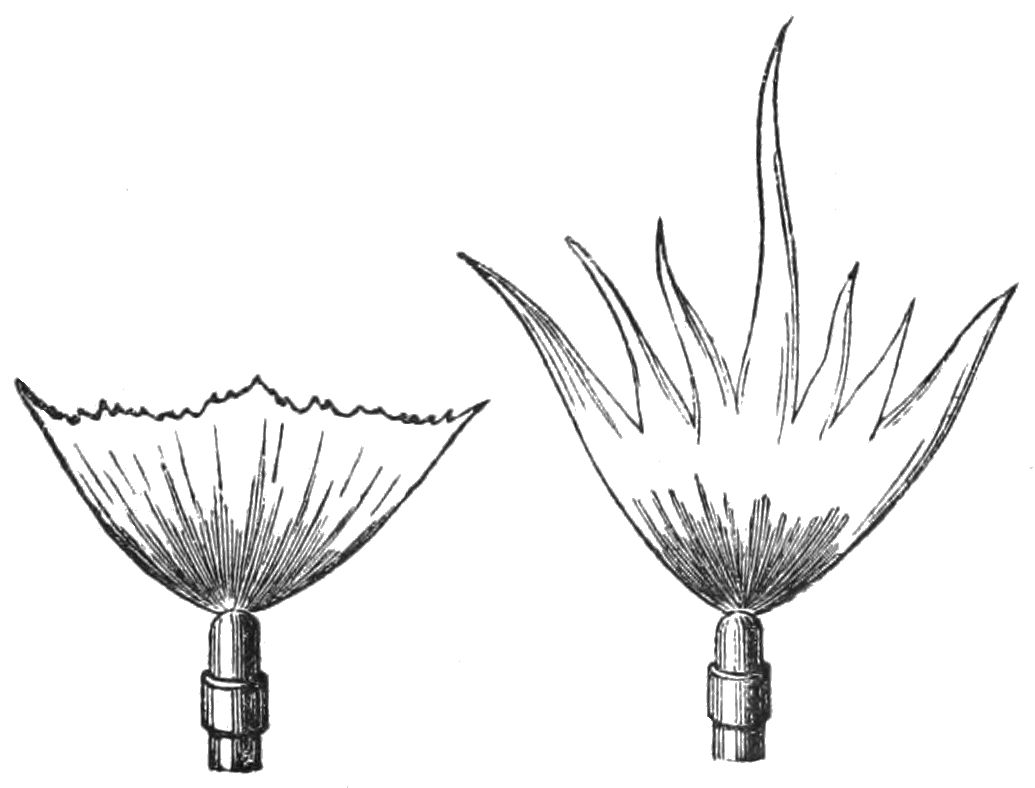 Sensitive batwing flames testing light and its effect on sound